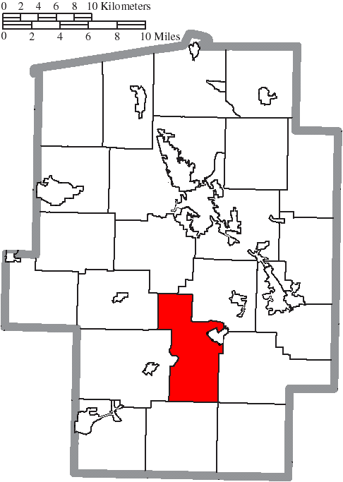 Map of the municipal and township boundaries of Tuscarawas County, Ohio, United States, as of the 2000 census, with the location of Clay Township highlighted. Township borders are shown only in unincorporated areas in order to differentiate incorporated and unincorporated areas more clearly.